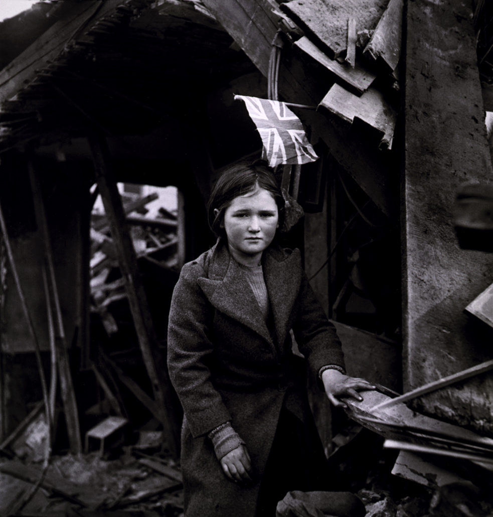 Battersea incident, England, January 1945--girl among the ruins, British flag overhead. Corresponds to V2 rocket bombing of Battersea, in London, of 27 January 1945: 17 people killed, 20 houses destroyed, dozens more houses damaged.